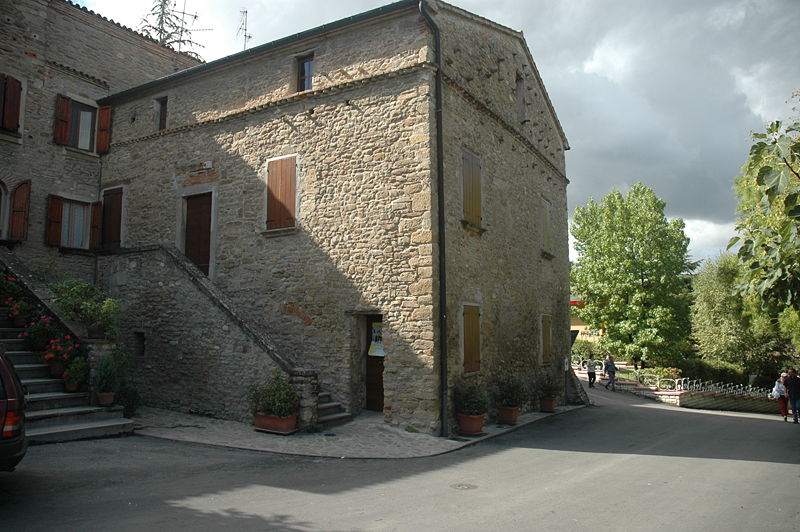 birthplace of Benito Mussolini in Predappio, today a museum.